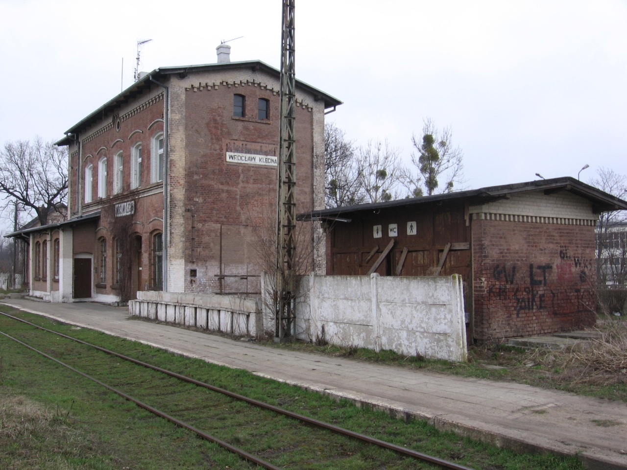 Railway station Wrocław-Klecina, Poland